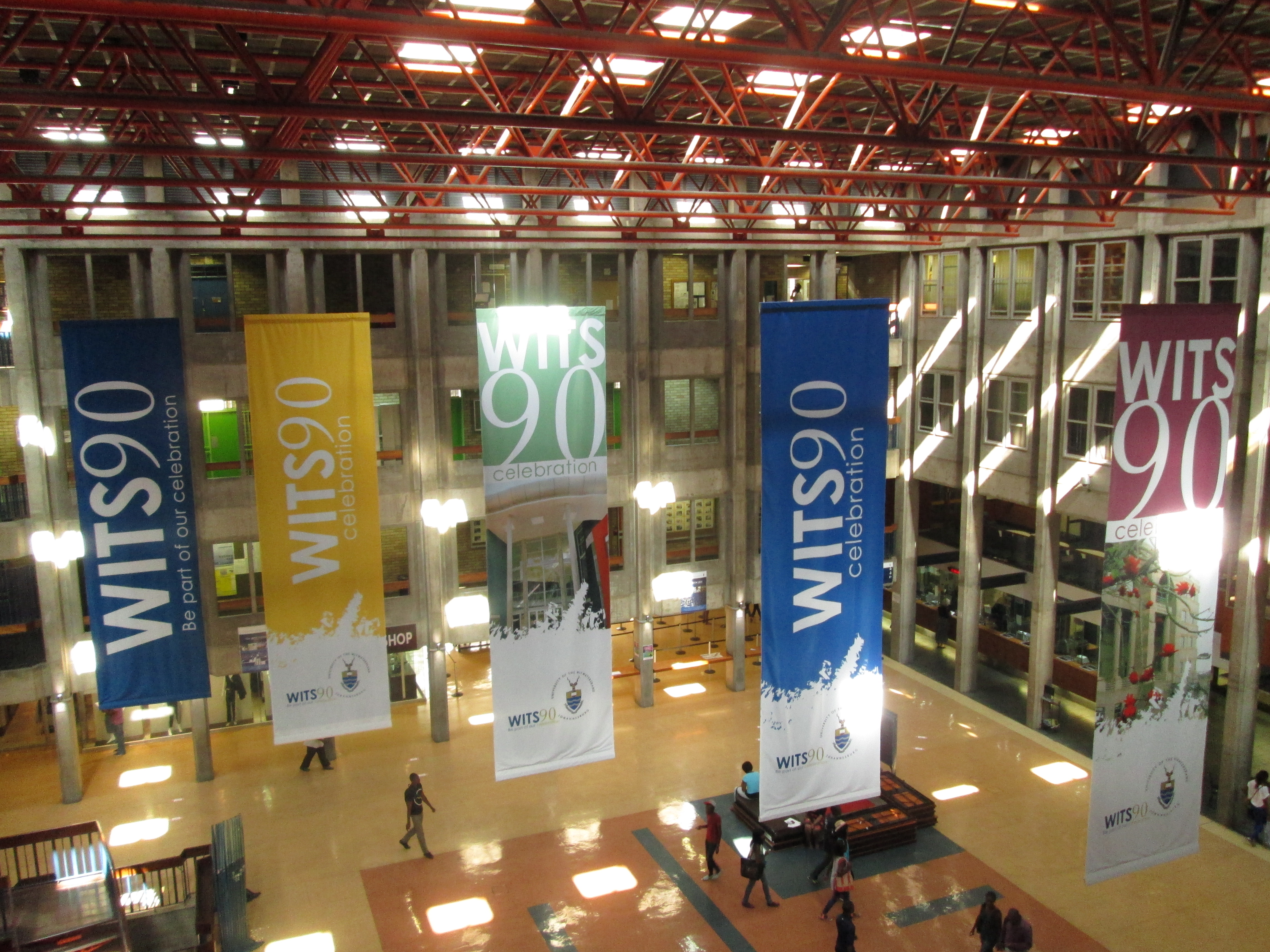 The Concourse of the Senate House of the University of the Witwatersrand, Johannesburg, as viewed from the third floor corridor in early 2013. The "Wits 90" banners are the previous year's: they were put up in 2012 as part of the university's 90th anniversary celebrations, and if my memory serves me correctly they were only taken down in late February 2013.